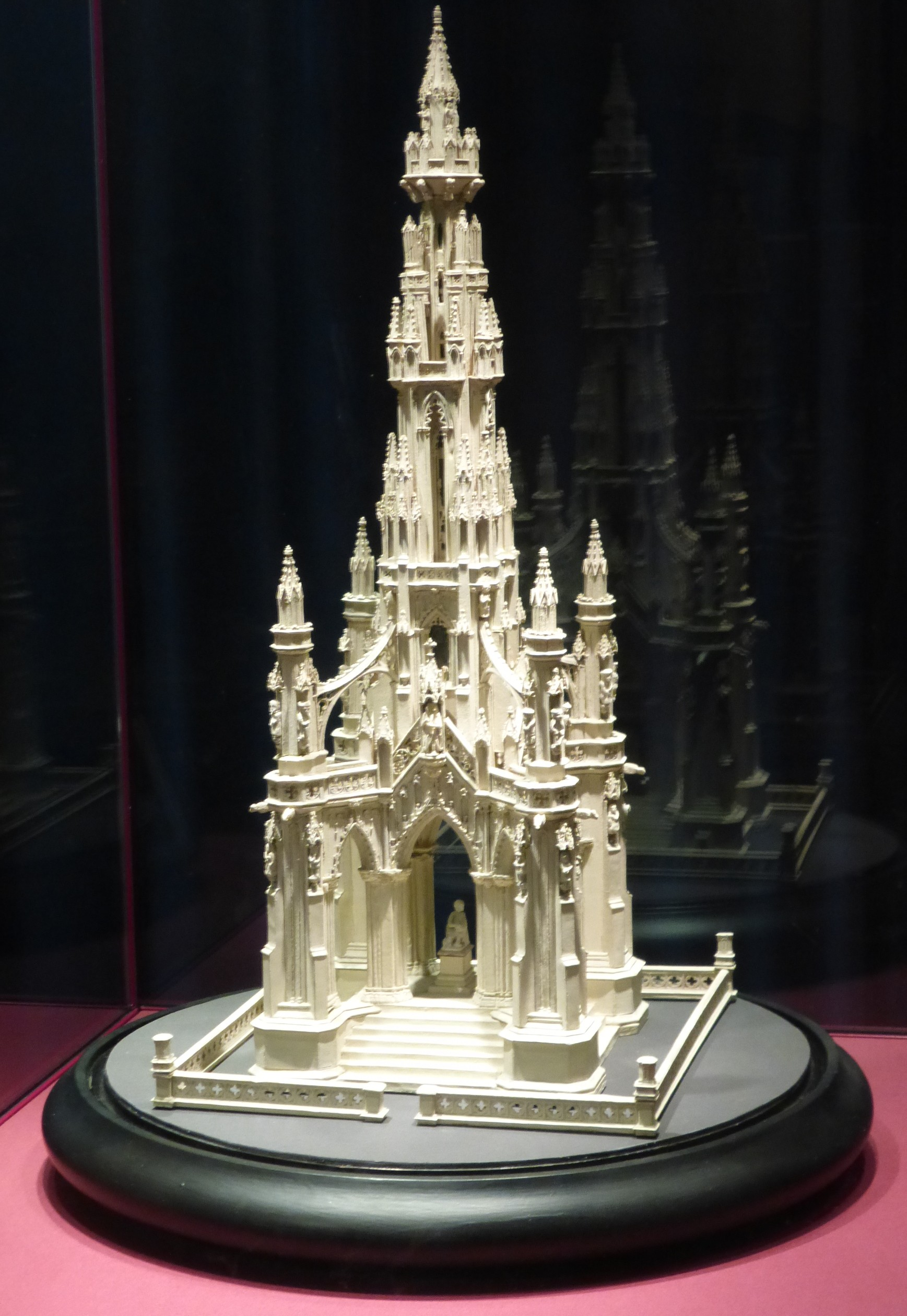 Cardboard model made by bookbinder Charles Morrison in 1860, on display in the Edinburgh Museum